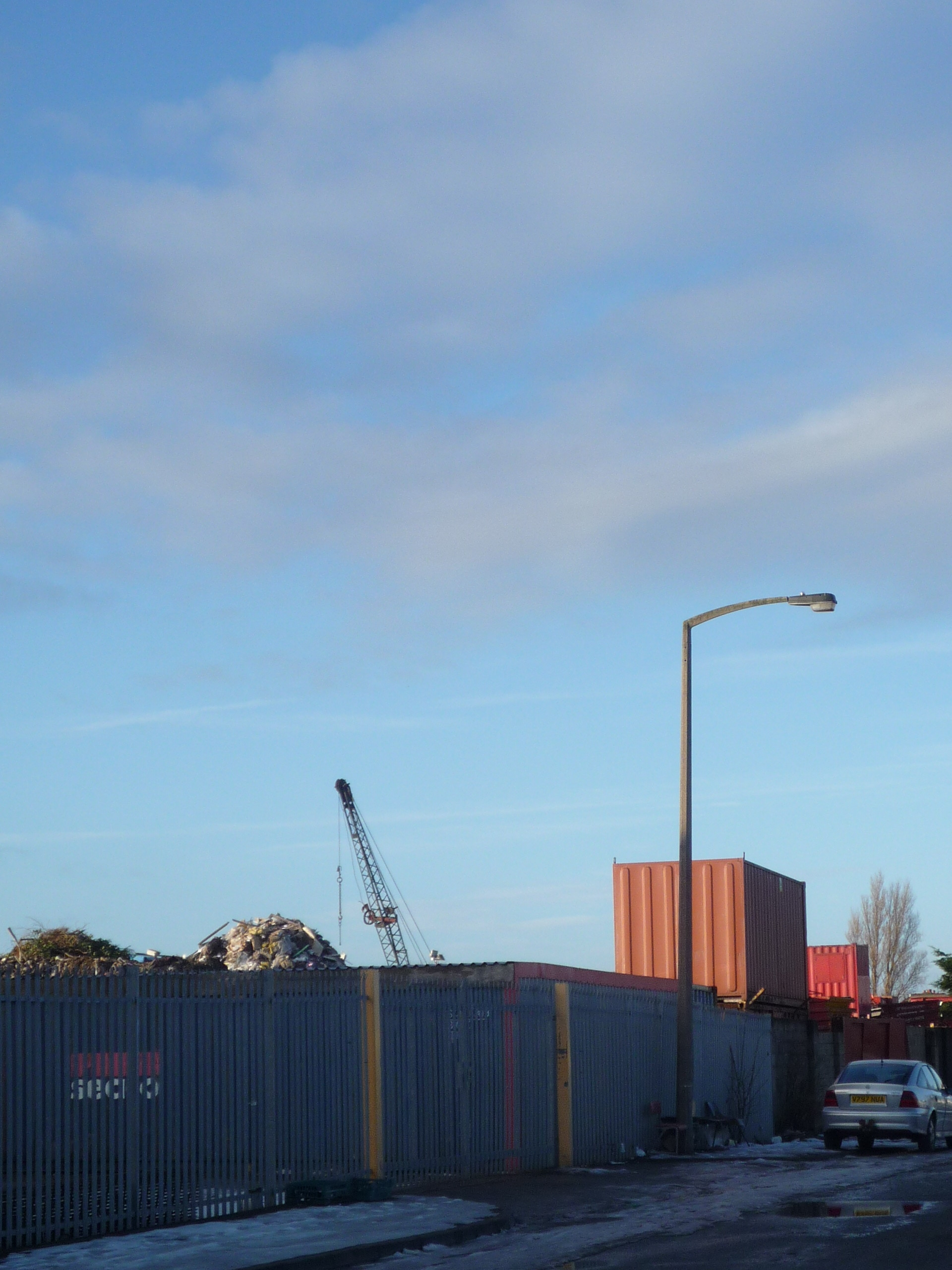 The same view on 2007 October 10 Crowland Close, Blowick, Southport, Lancashire